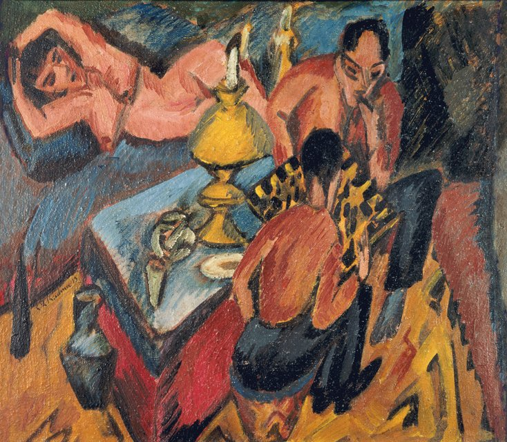 Erich Heckel and Otto Mueller Playing Chess by Ernst Ludwig Kirchner, 1913, oil on canvas, 35.5 x 40.5 cm., Brücke-Museum, Berlin